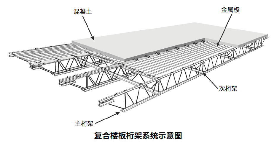 Schematic of composite floor truss system in the World Trade Center.